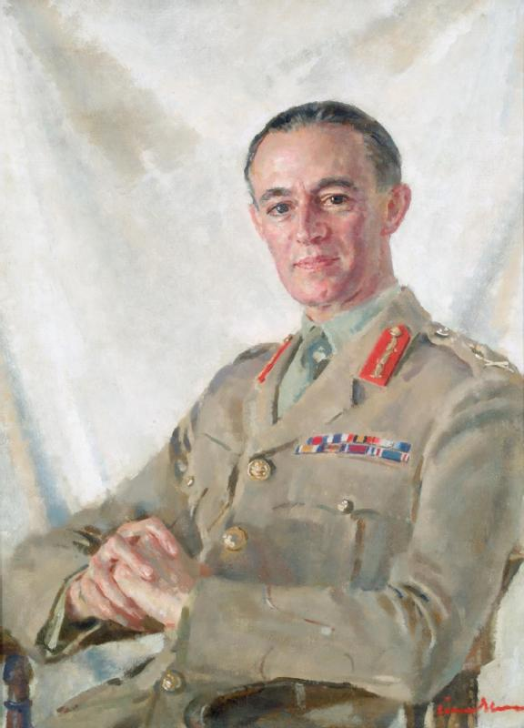 Lieutenant General R G W H Stone Cb, Dso, Mc, Frgs image: A three-quarter length portrait of Stone, seated and wearing uniform.